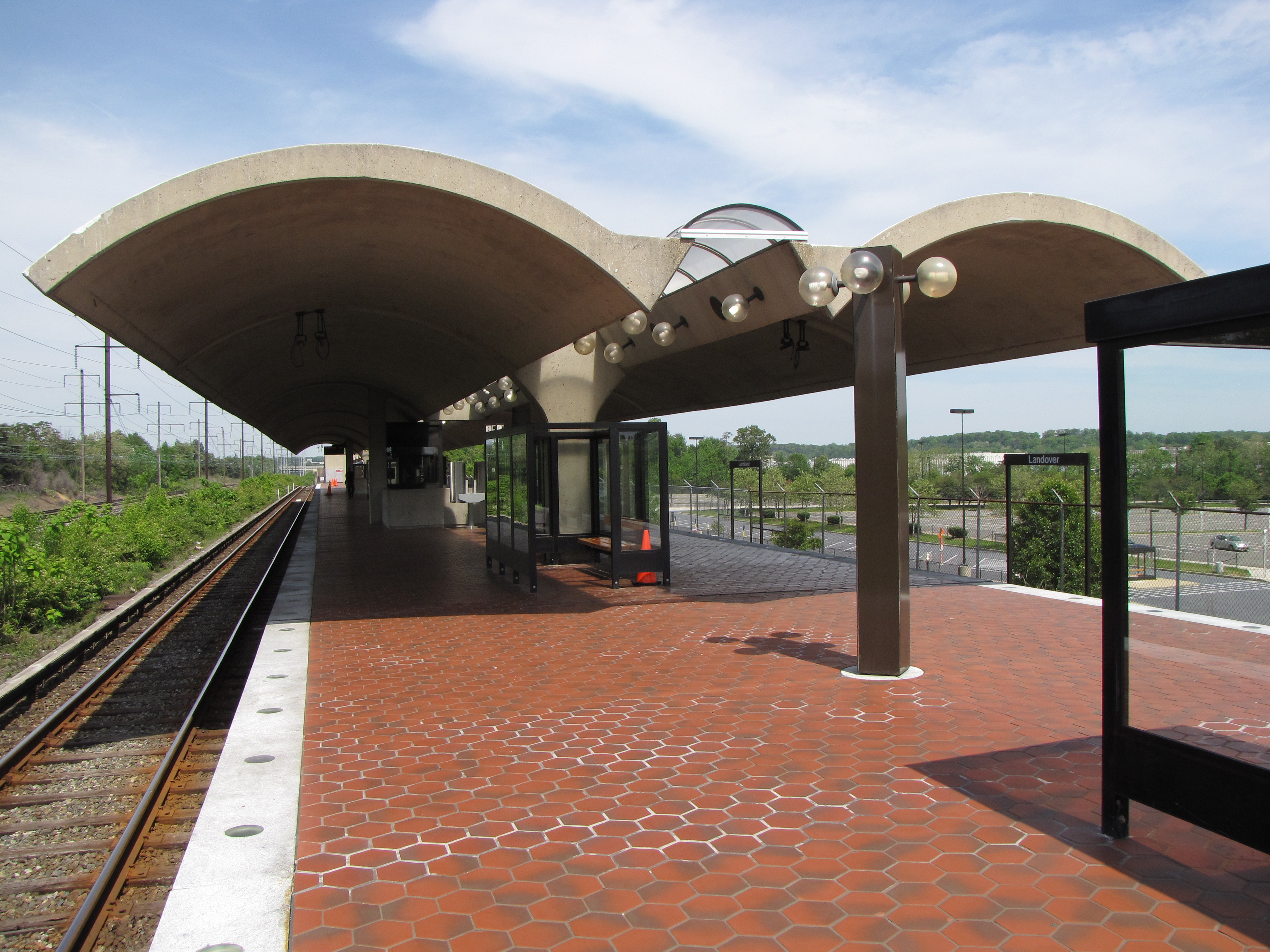 Inbound end of the platform at Landover, a station on the Orange Line of the Washington Metro.